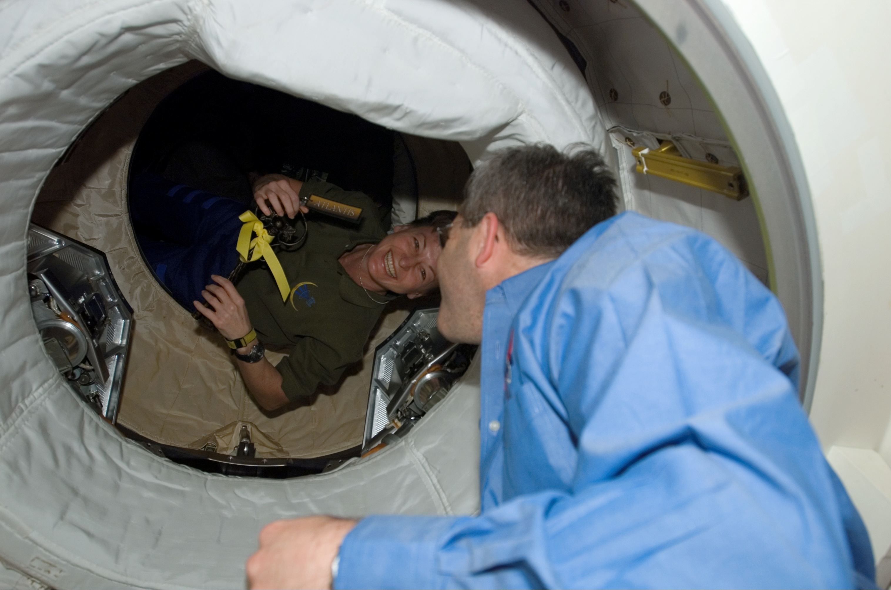 In a case of commander greets commander, astronauts Peggy Whitson of the International Space Station crew, and Steve Frick of the STS-122 Space Shuttle Atlantis crew, greet each other shortly after the two spacecraft docked in space and the hatches were opened on Feb. 9, 2008.